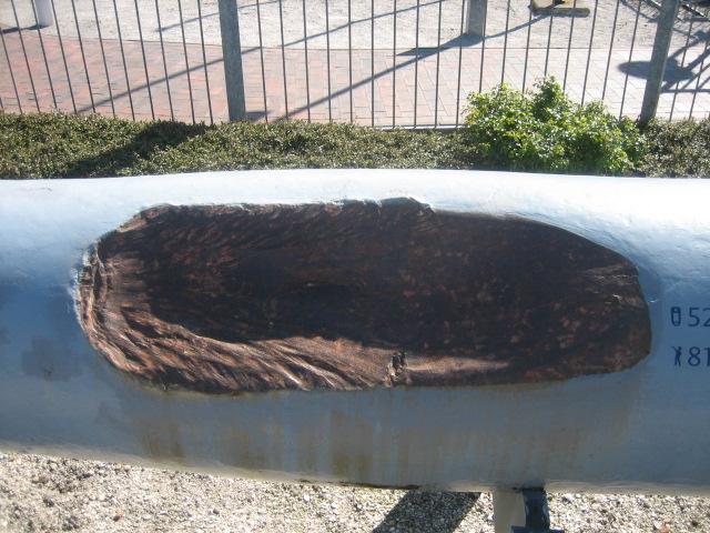 11 inch gun barrel of the SMS Seydlitz (1912). The barrel has been heavily damaged by a direct hit in the battle of Jutland (1916). The gun barrel is an exhibit of the German naval museum in Wilhelmshaven